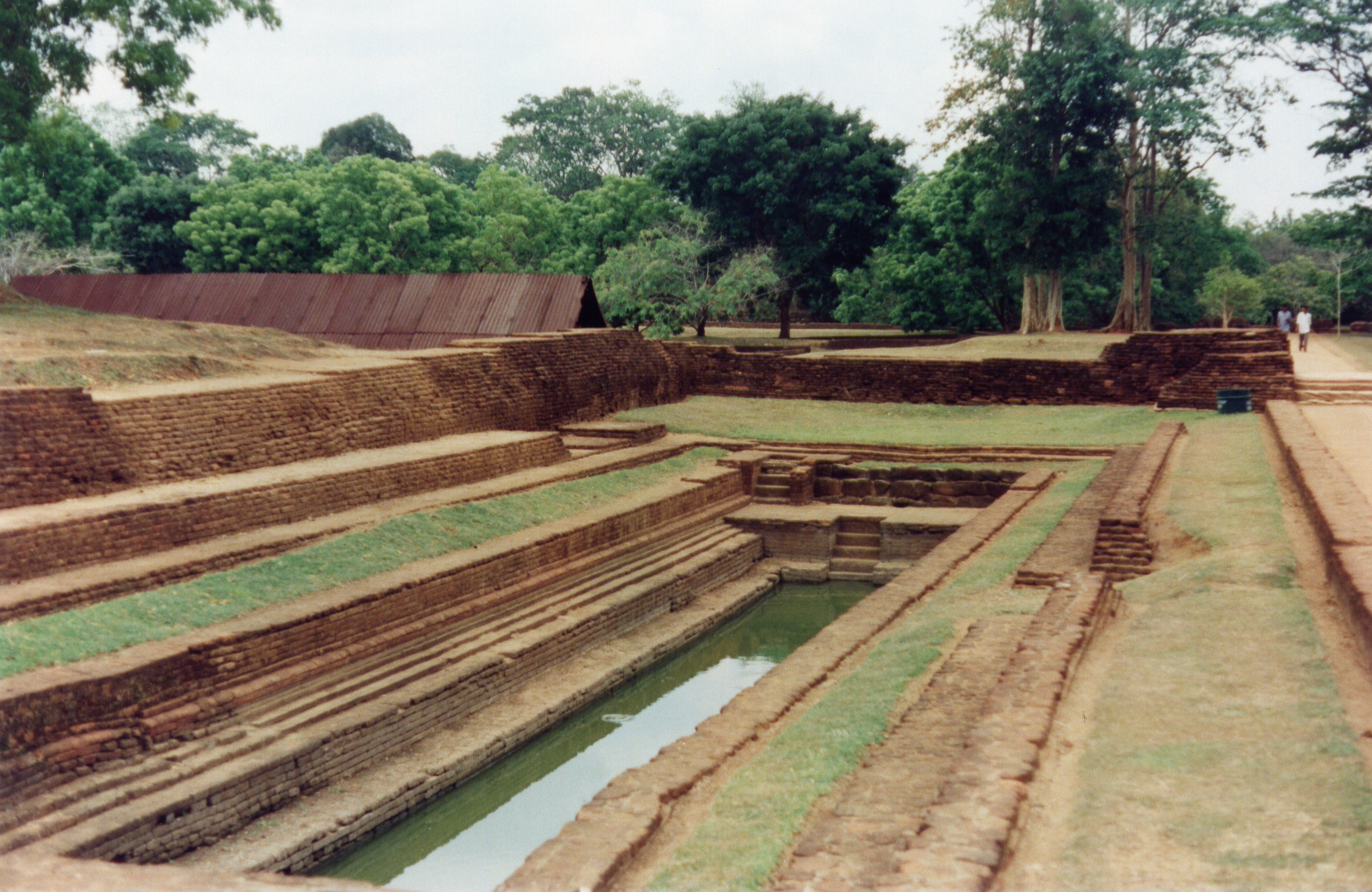 Sigiriya, Sri Lanka. Gardens at the foot of Sigiriya Rock. Copyright H.J.Moyes October 2000.